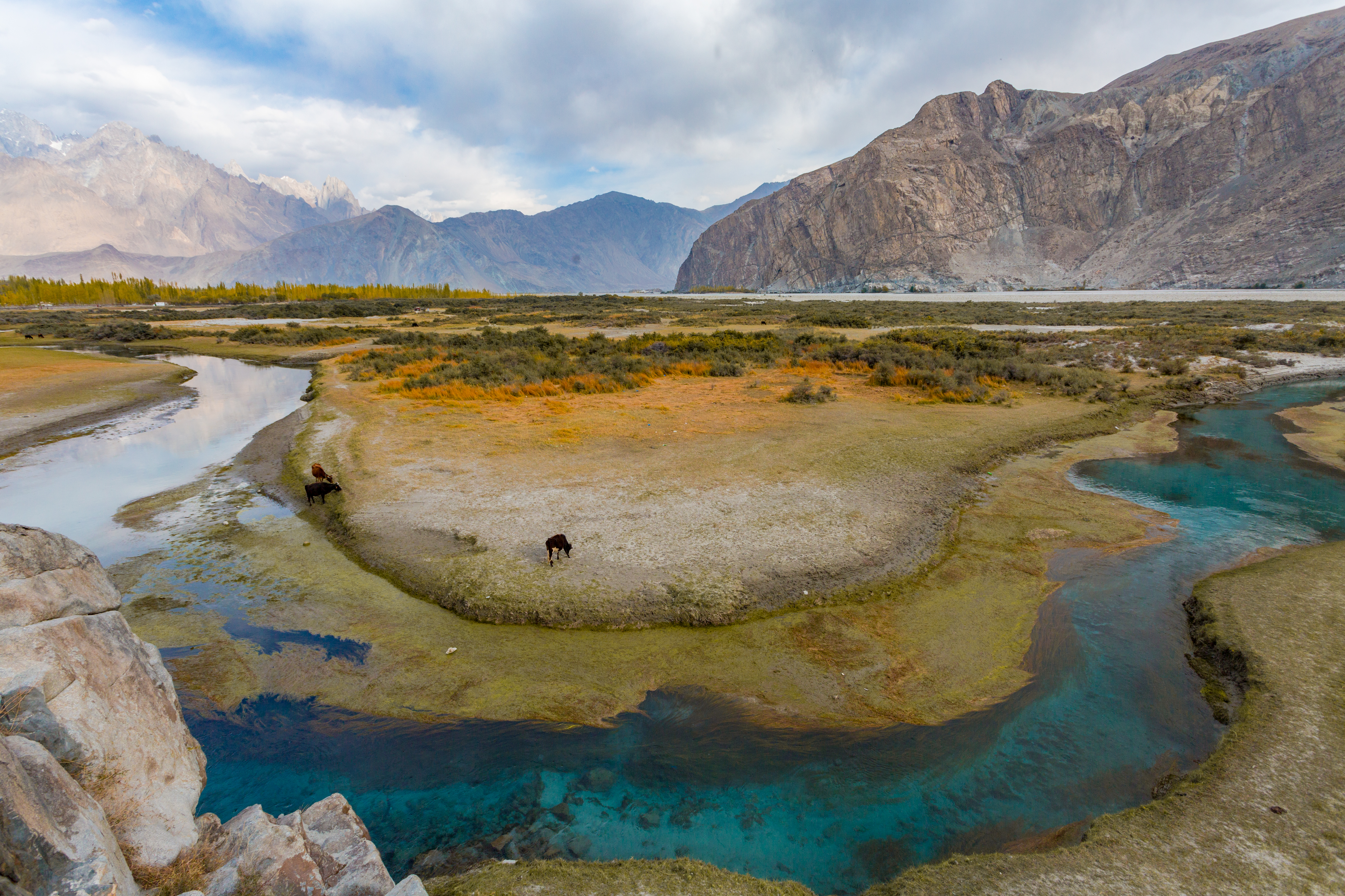 Sailing Valley Located in Gilgit Balistan District Ghizer